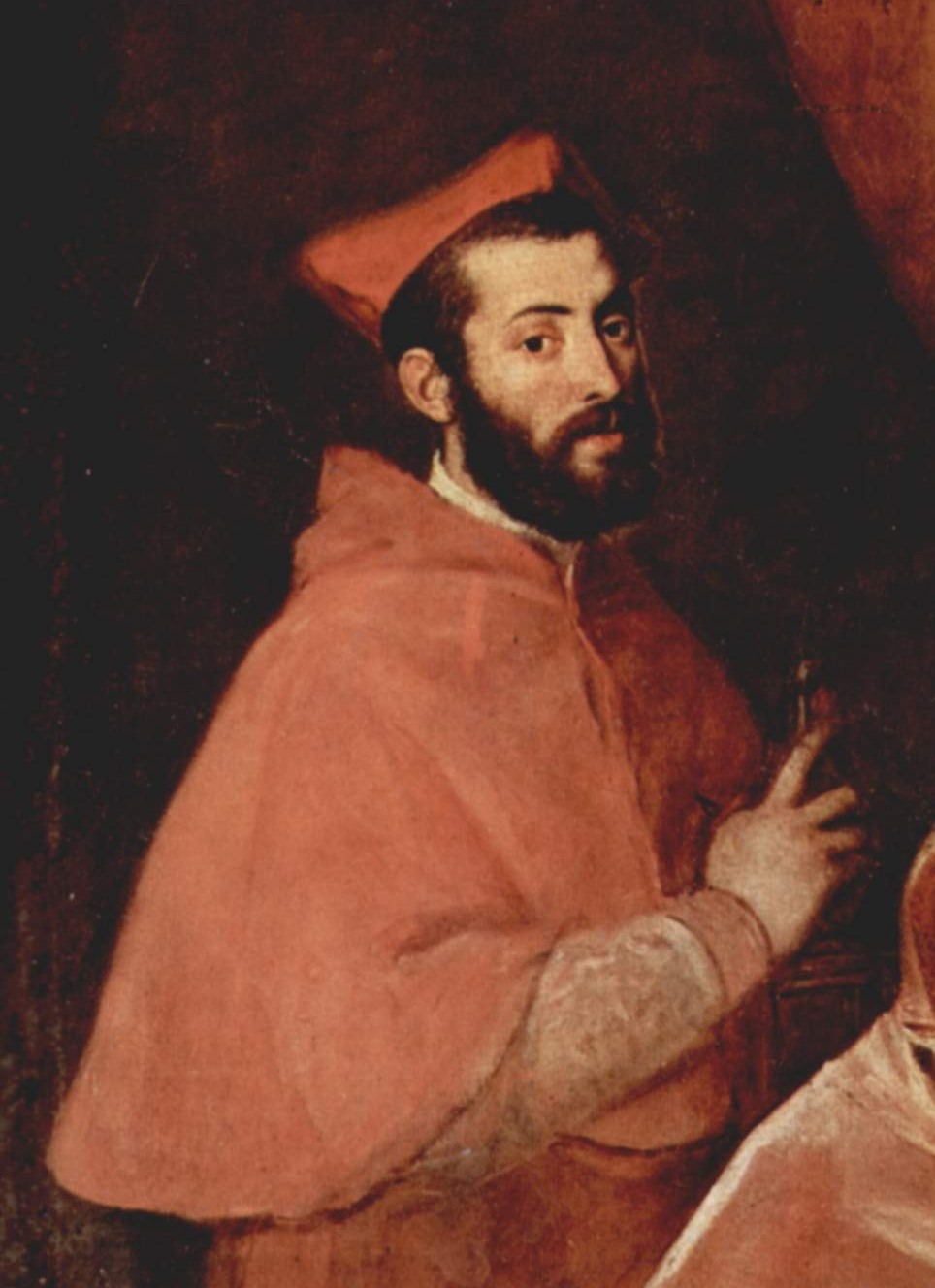 detail of Image:Tizian 068.jpg